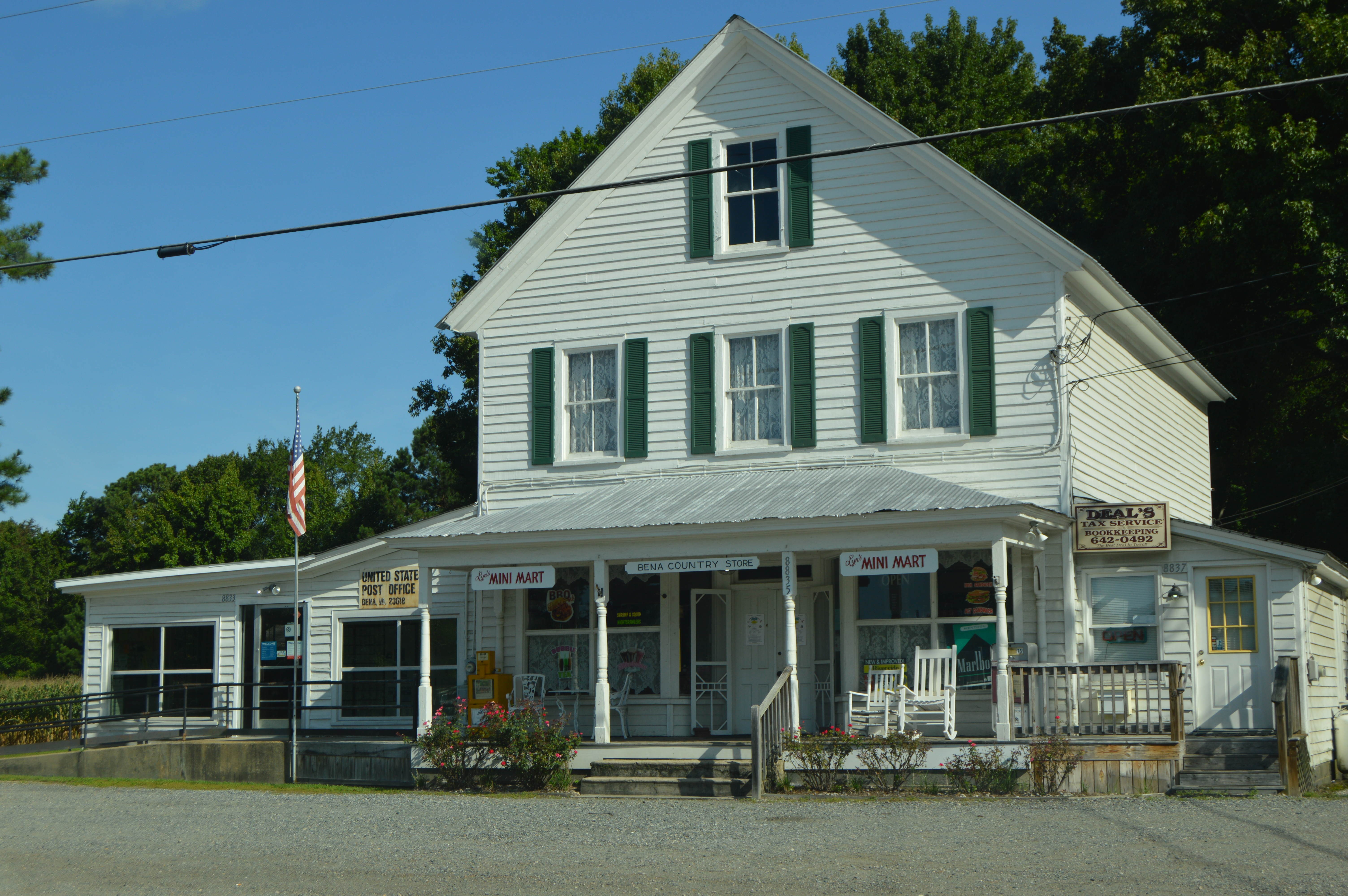 Front of the Bena country store and post office, located at 8833 Guinea Road at Bena in Gloucester County, Virginia, United States.